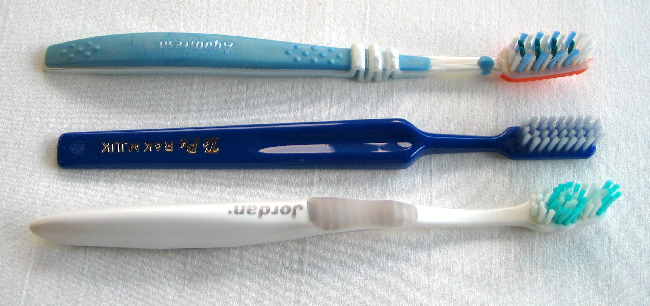 Three toothbrushes, photo taken in Sweden